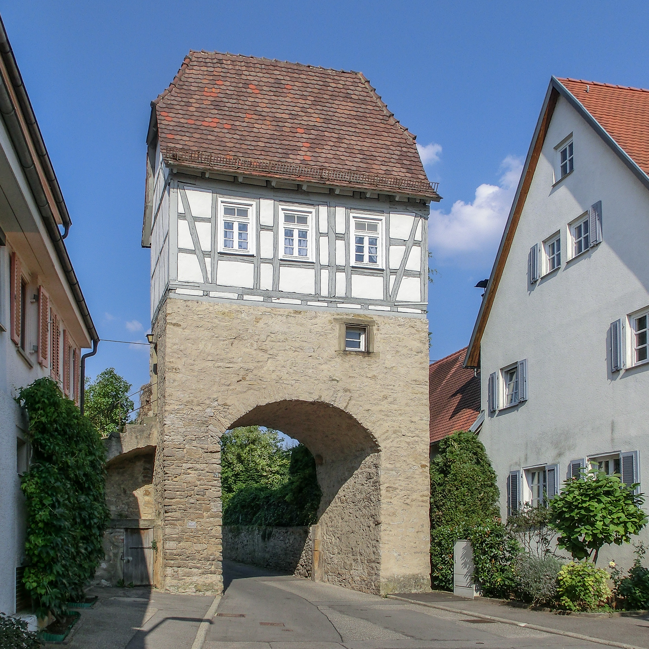 The Neckartor (translation: "Neckar gate") in Kirchheim am Neckar, Baden-Württemberg.